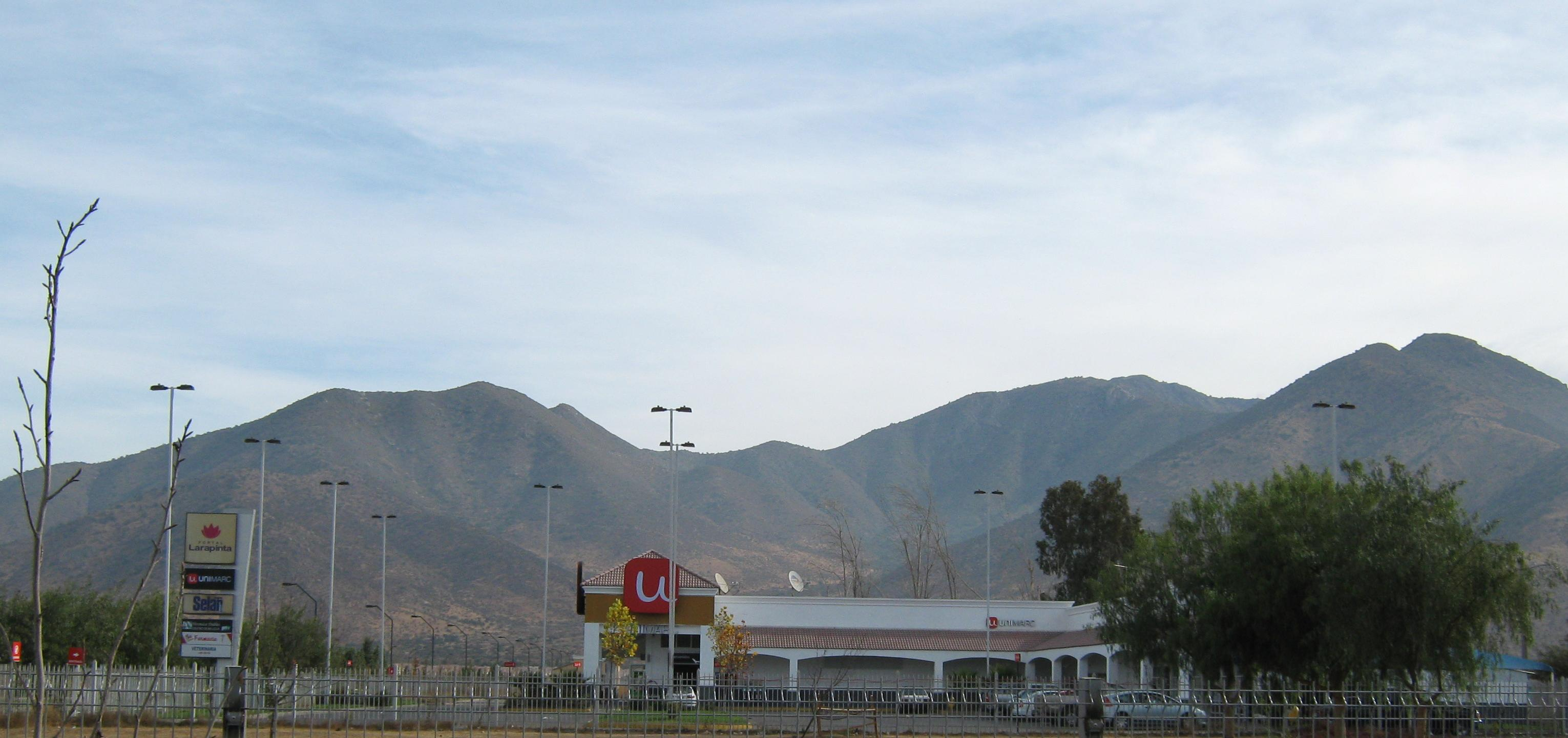 Larapinta, market, drugstore and services area Lampa, Chile